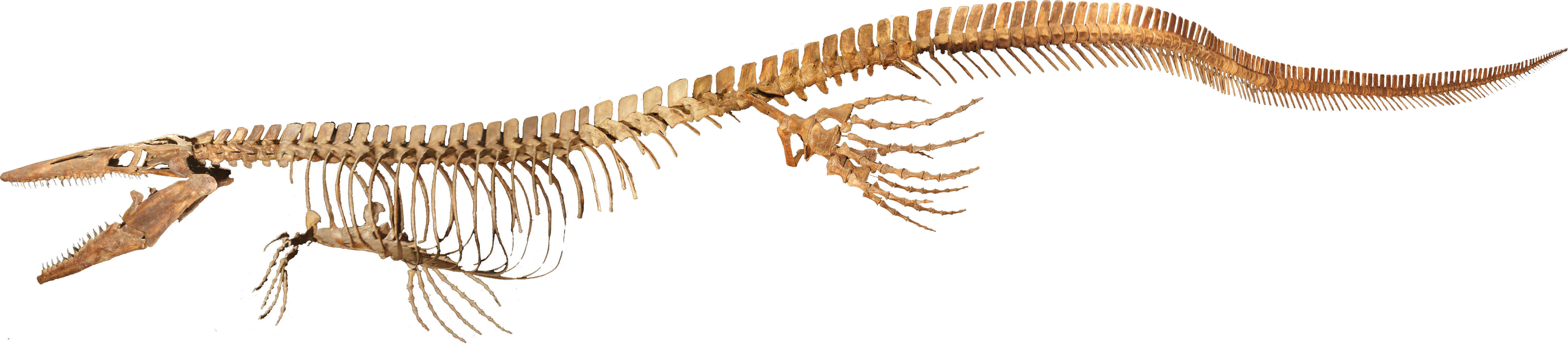 Tylosaurus proriger (KUVP 5033) mounted skeleton in the Rocky Mountain Dinosaur Resource Center in Woodland Park, Colorado